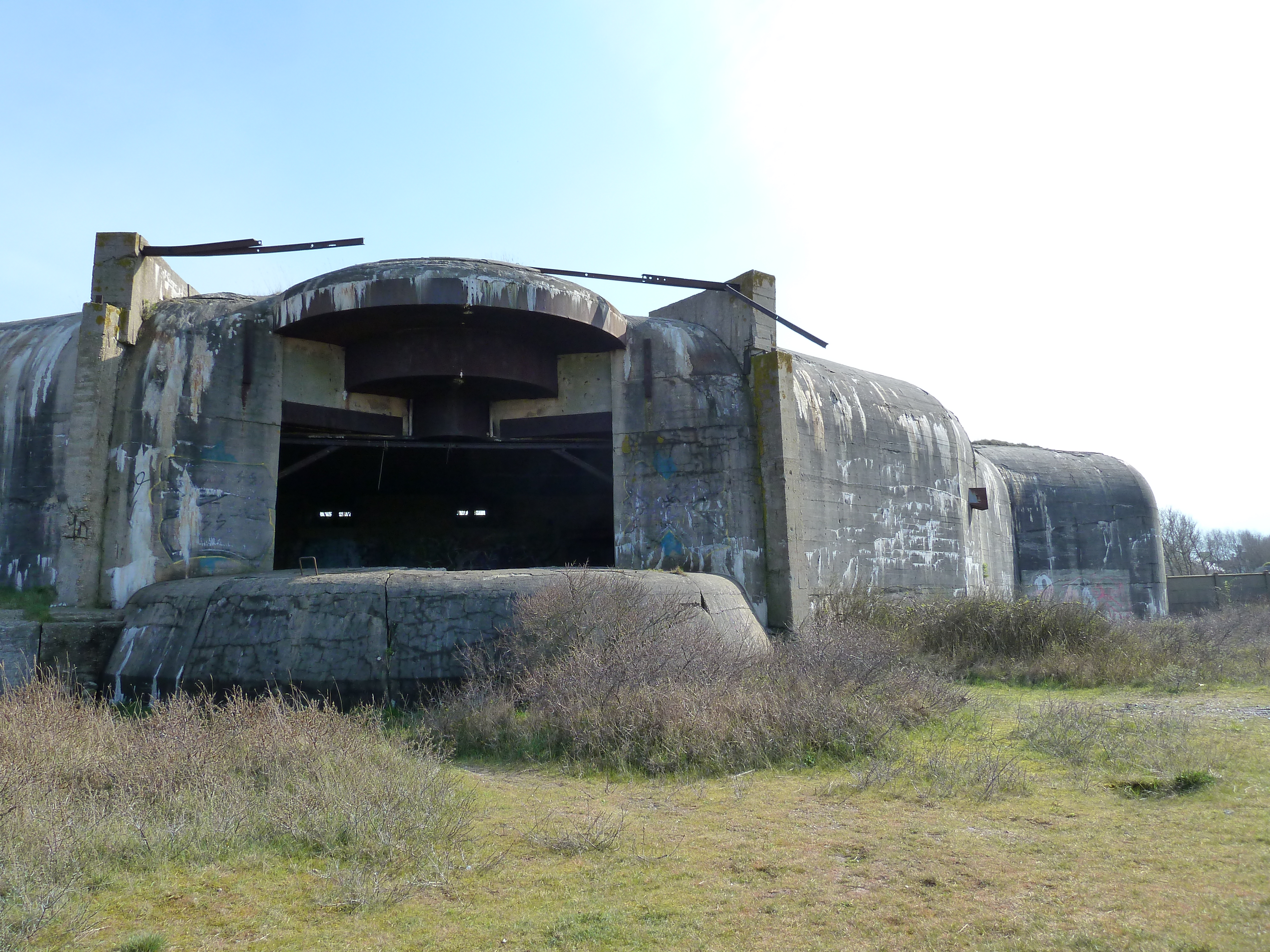 Battery Oldenburg Front 2013, Calais France